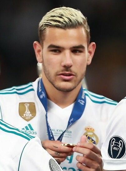 Isco, Casemiro, Theo Hernández ,Zinedine Zidane